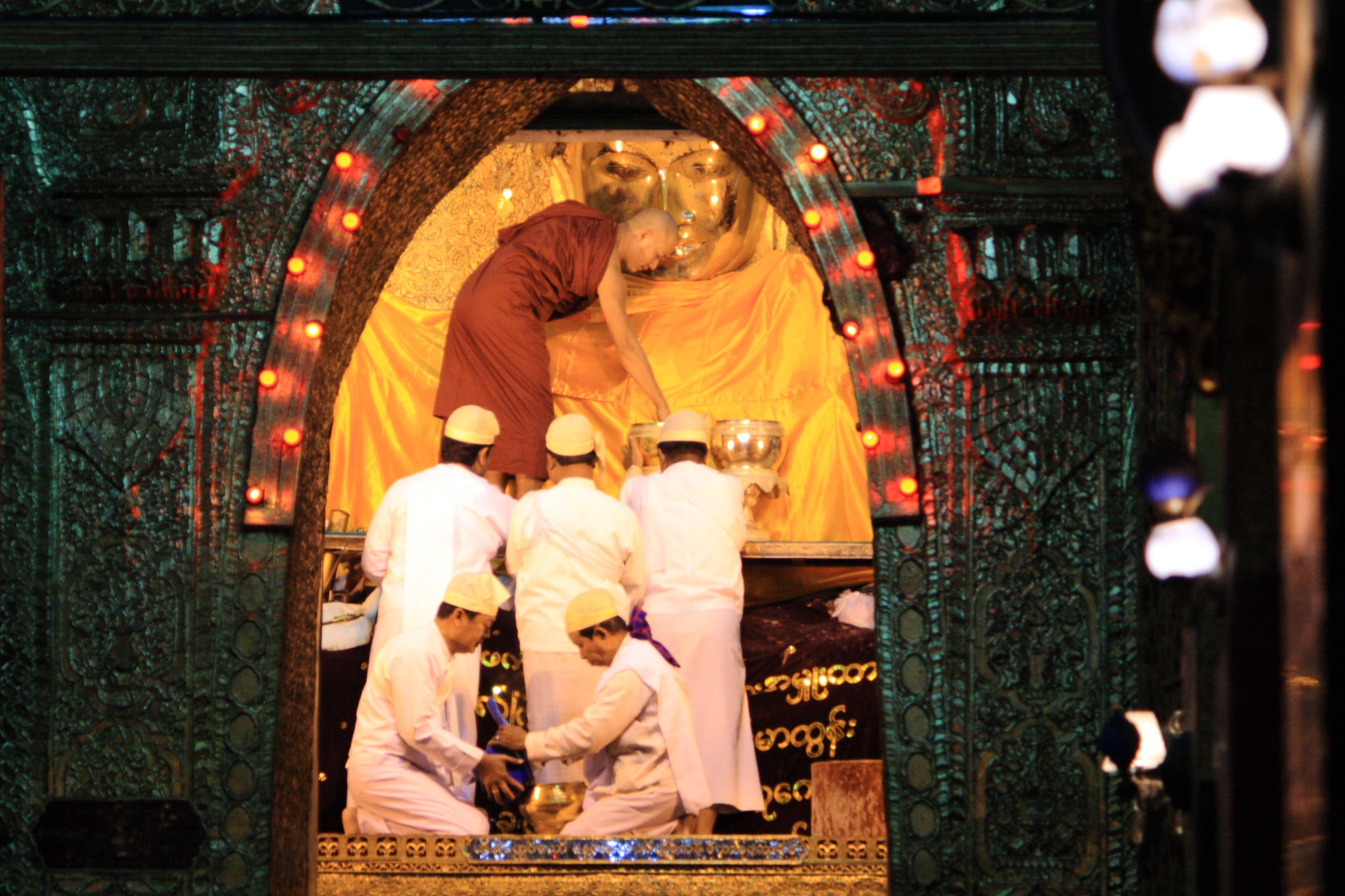 The washing and cleaning ceremony starts at early 4.30 a.m. every day. The towels are offered by lay devotees and after the ceremony, the towels are given to the worshippers to be honored at their home shrines.